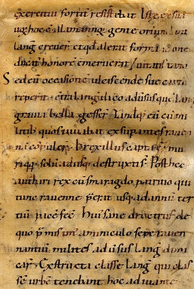 page (cropped) of M I 496, a bifolium of a 11th-century ms. of Historia Langobardorum which had later been used as a binding (detached from a Freising print dated 1697). Carolingian minuscule, comparable to that in Wolfenbüttel, Herzog-August-Bibliothek, Cod. 45. The text is from book 3, c. 15-19 (MGH 48, 122ff.).